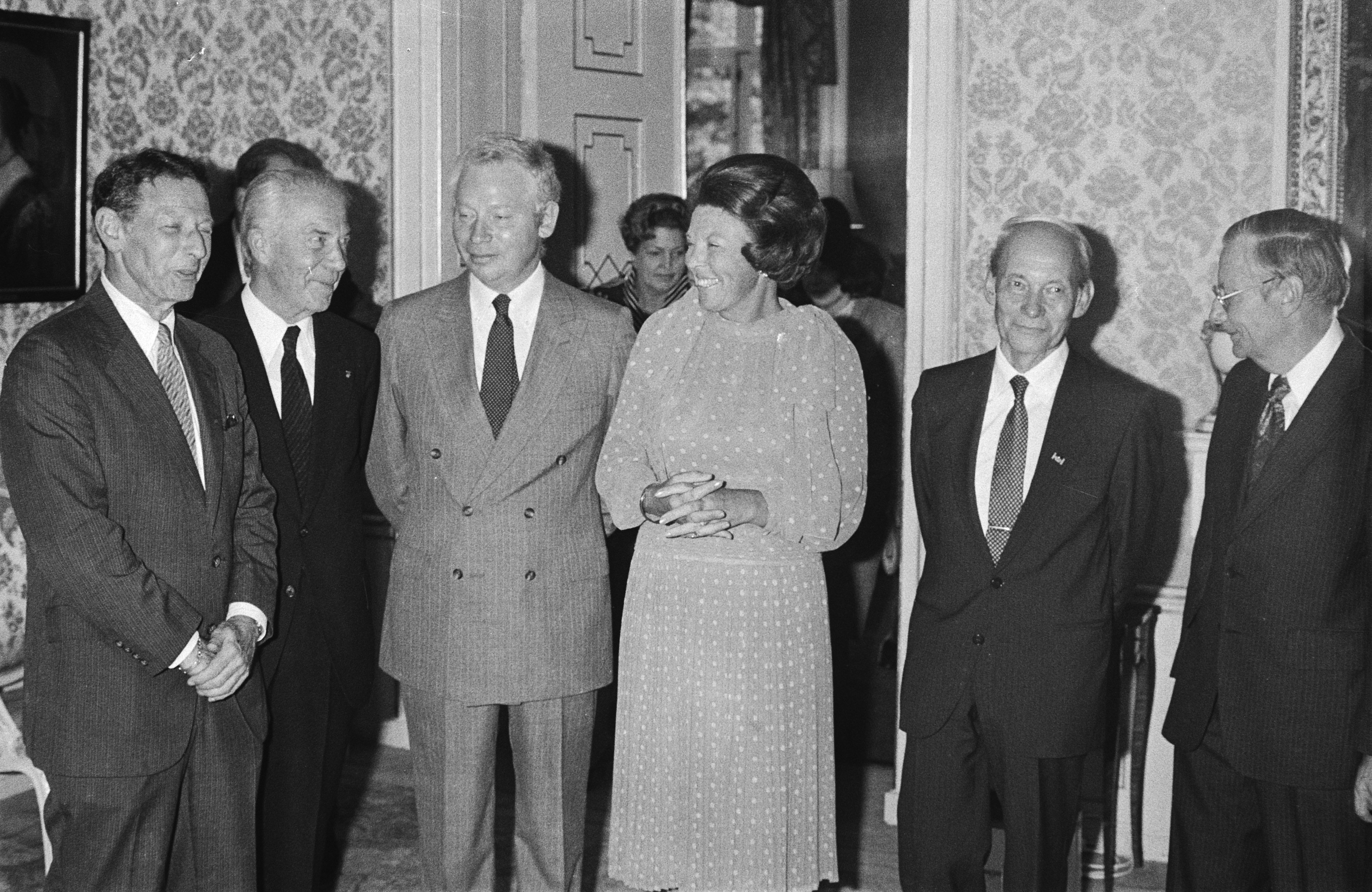 Queen Beatrix receives Nobel laureates: (left to right) Paul Berg, Christian de Duve, Steven Weinberg, [Queen Beatrix,] Manfred Eigen, Nicolaas Bloembergen